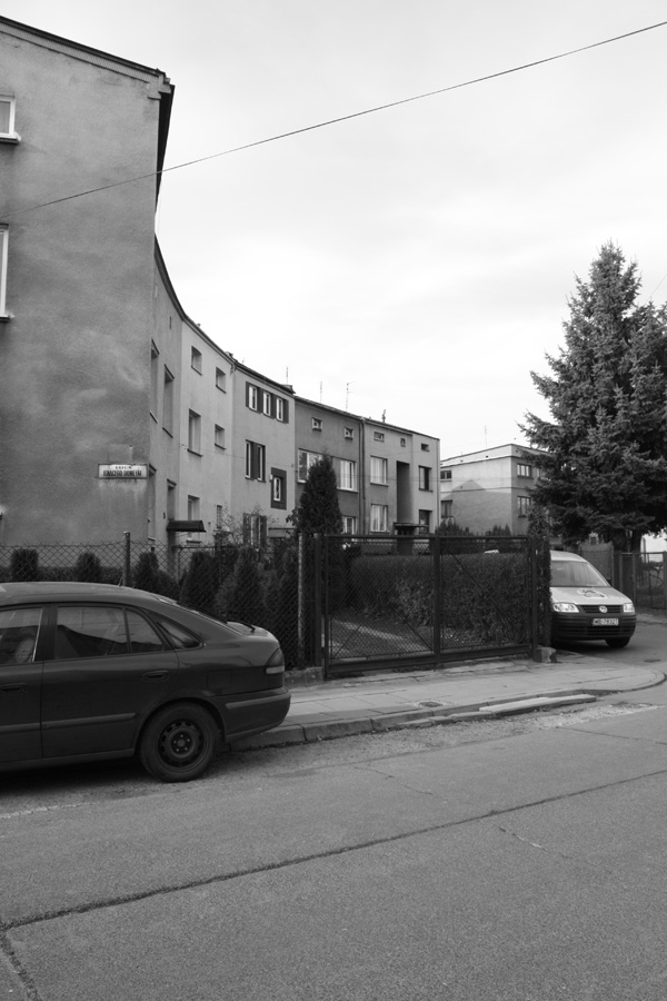 Kraków, os. Cichy Kącik, proj. Wacław Nowakowski